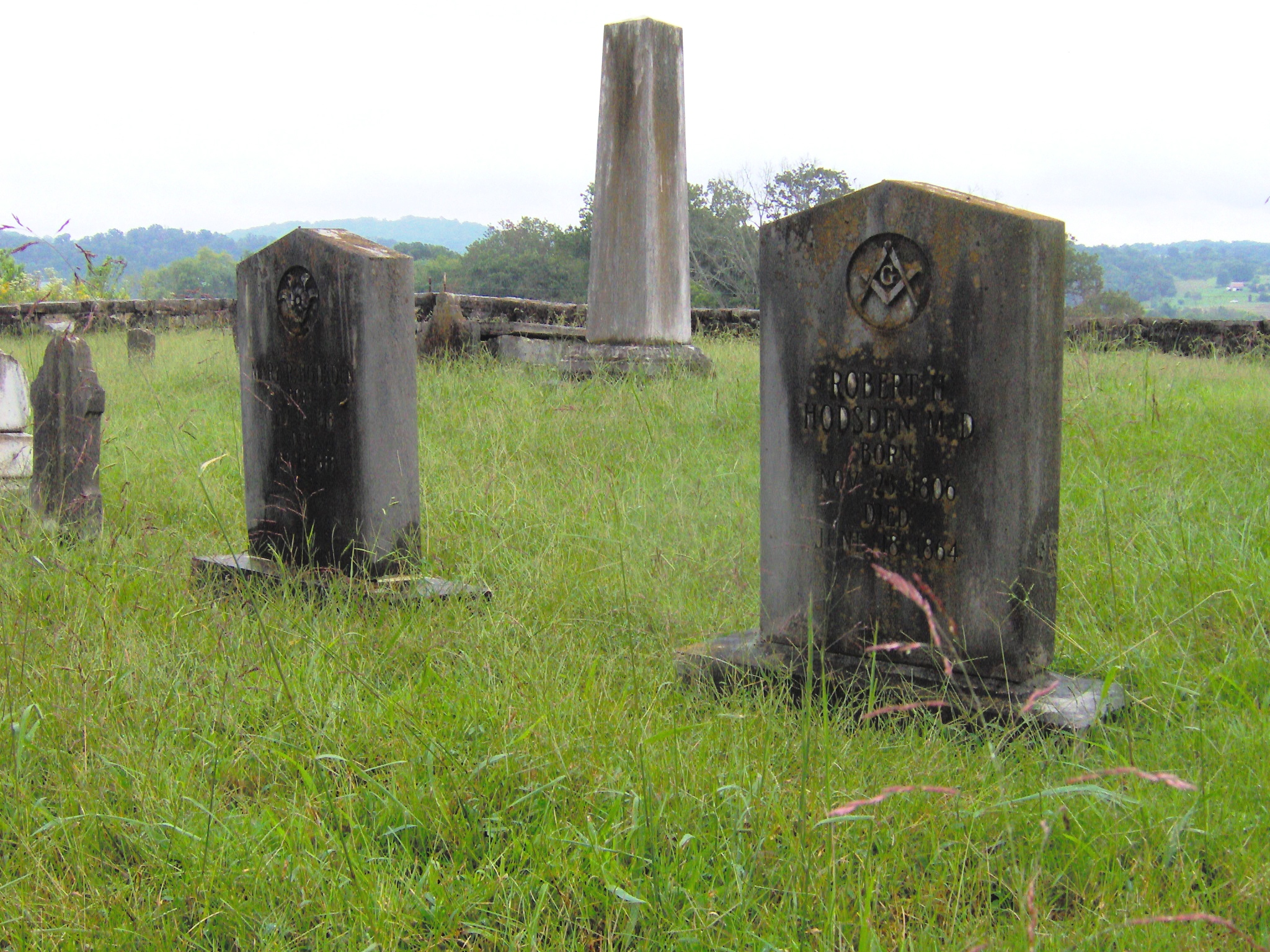 The graves of Dr. Robert Hodsden (right) and daughter Mary Pasteur Hodsden Hicks (left) at the Brabson Cemetery in Boyds Creek, Tennessee, USA. One of the most influential figures in antebellum Sevier County, Hodsden established the Rose Glen plantation several miles to the east in the late 1840s. Hodsden's wife, Elizabeth Brabson was the daughter of John Brabson, who established the Brabson's Ferry Plantation. This cemetery is located on a hill rising immediately north of Brabson's Ferry Plantation, just off Indian Warpath Road.